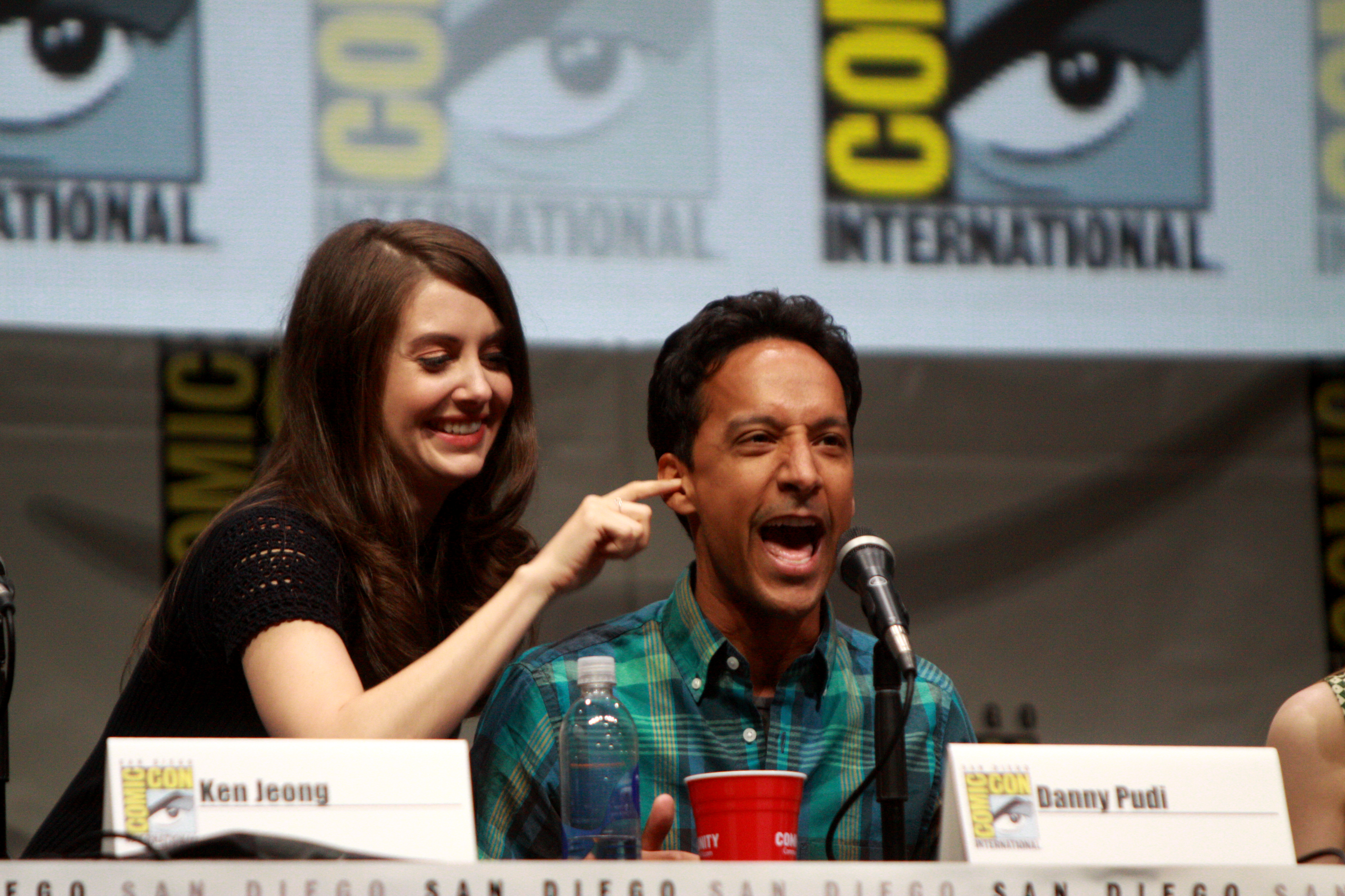 Alison Brie and Danny Pudi speaking at the 2013 San Diego Comic Con International, for "Community", at the San Diego Convention Center in San Diego, California.